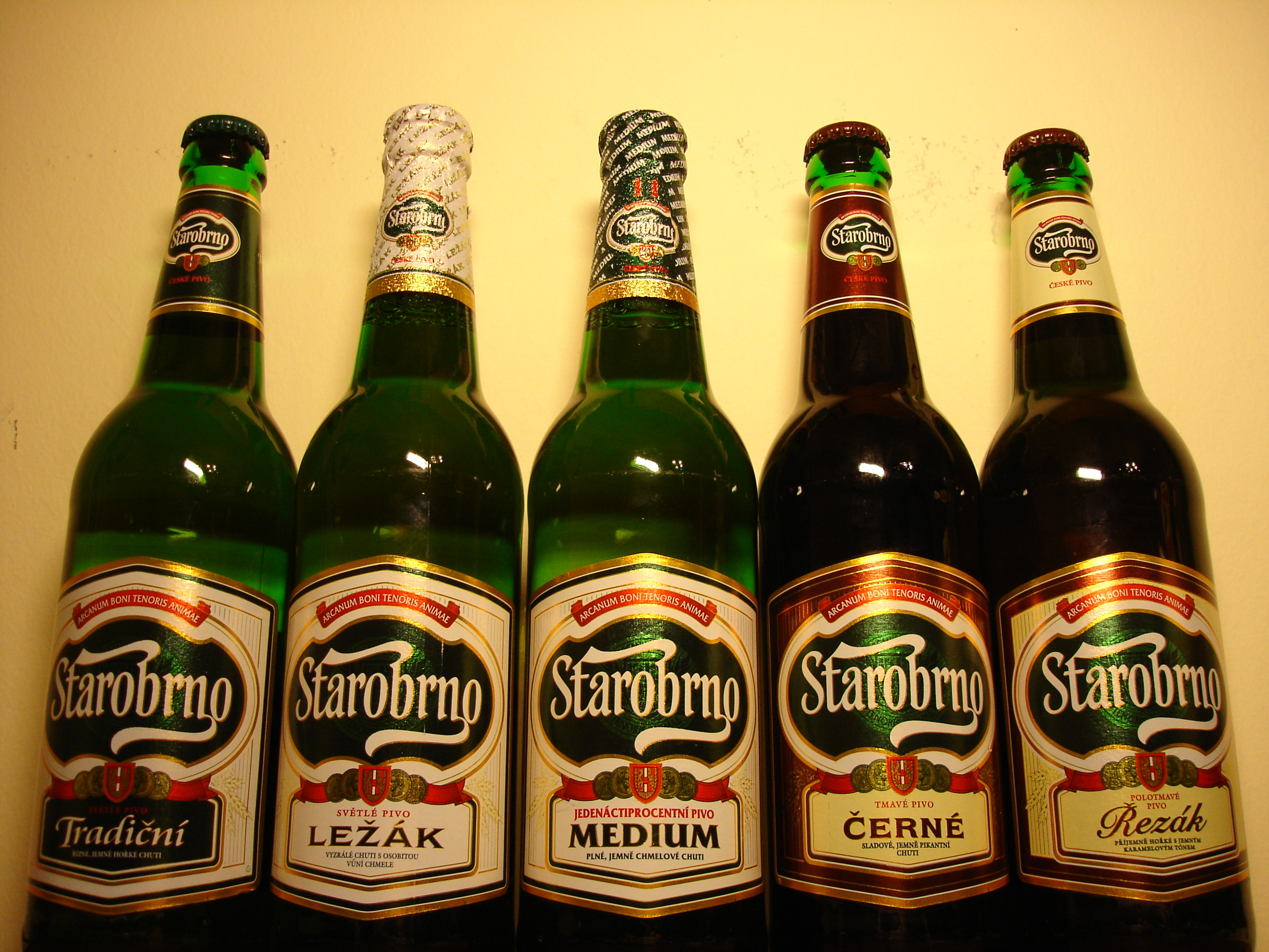 Six types of Starobrno beer